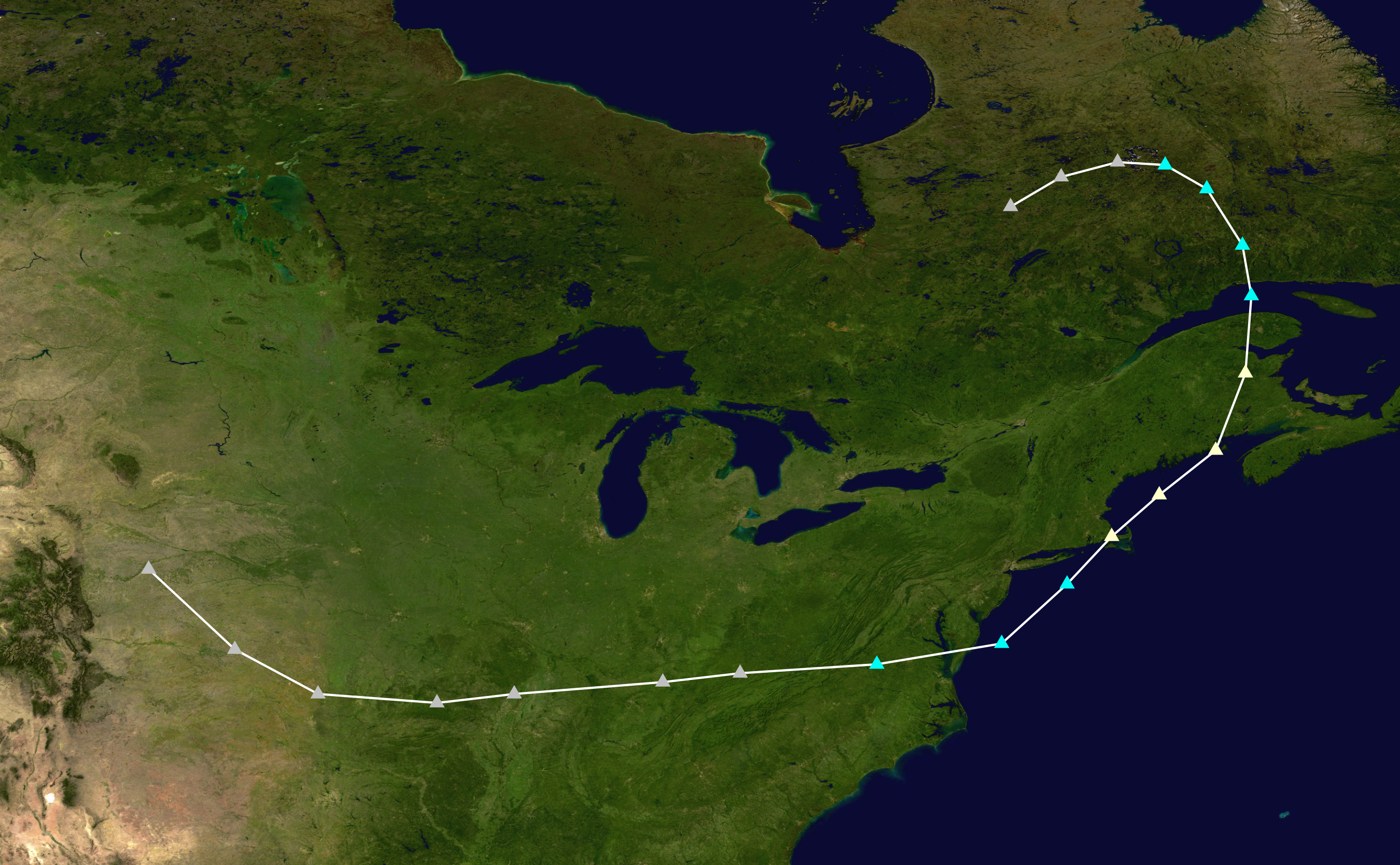 Track map of February 1995 nor'easter of the 1994–95 North American winter. The points show the location of the storm at 6-hour intervals. The colour represents the storm's maximum sustained wind speeds as classified in the Saffir–Simpson scale (see below), and the shape of the data points represent the nature of the storm, according to the legend below. Saffir–Simpson scale Tropical depression≤38 mph≤62 km/h Category 3111–129 mph178–208 km/h Tropical storm39–73 mph63–118 km/h Category 4130–156 mph209–251 km/h Category 174–95 mph119–153 km/h Category 5≥157 mph≥252 km/h Category 296–110 mph154–177 km/h Unknown Storm type Tropical cyclone Subtropical cyclone Extratropical cyclone / Remnant low / Tropical disturbance / Monsoon depression